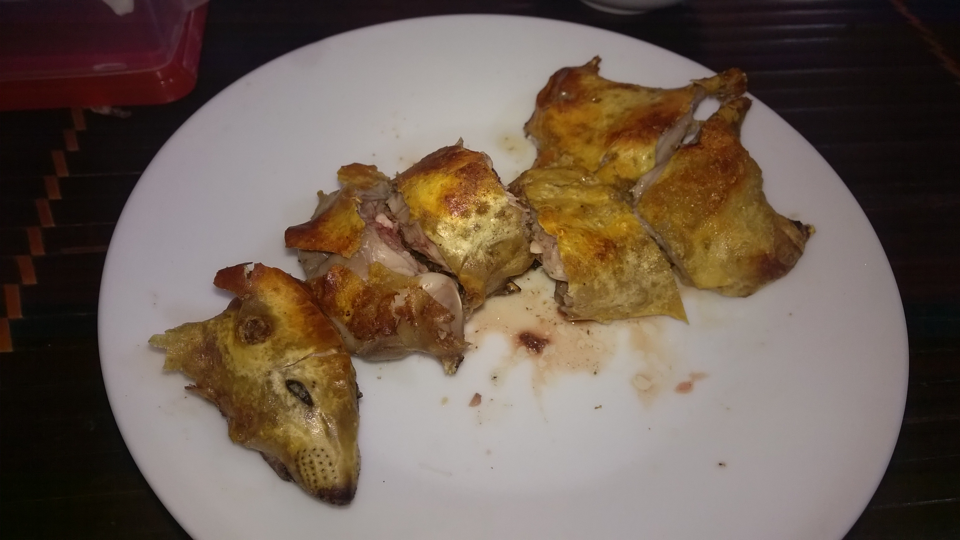 A type of Vietnamese consumed in restaurants.